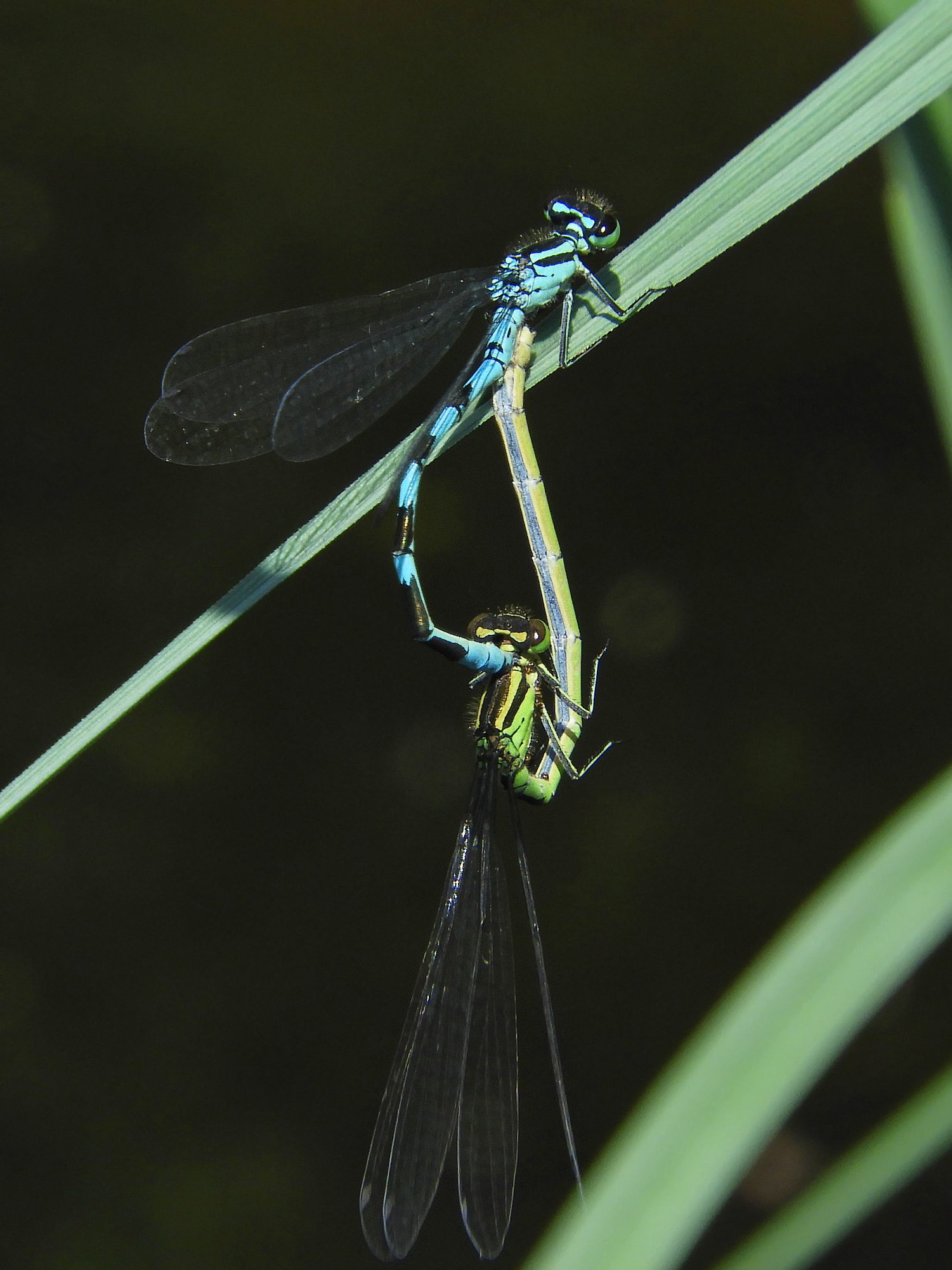 Copula of Coenagrion hastulatum. Location: North-eastern Lower Saxony, Germany.